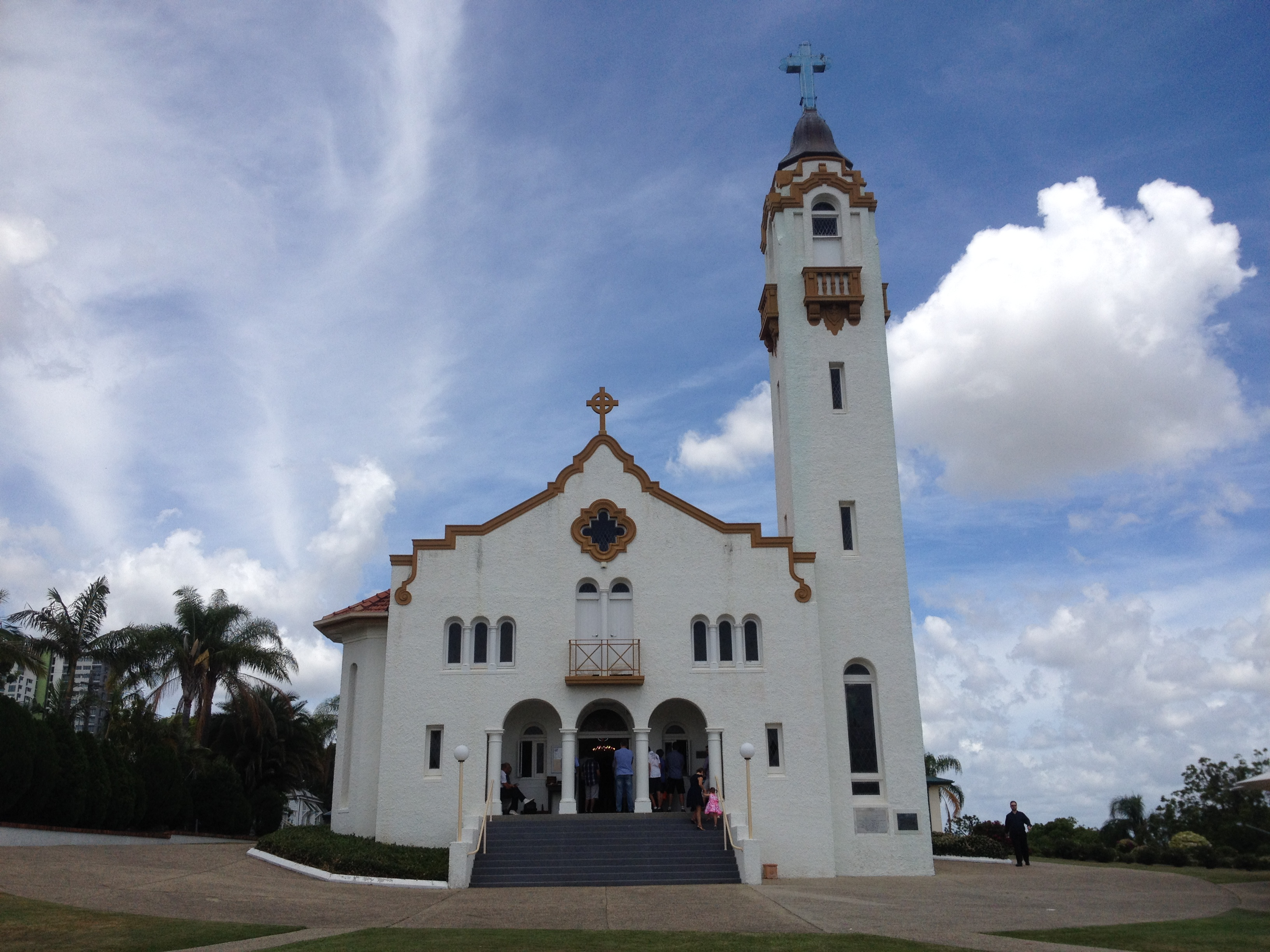 Our Lady of Victories Church, Brisbane